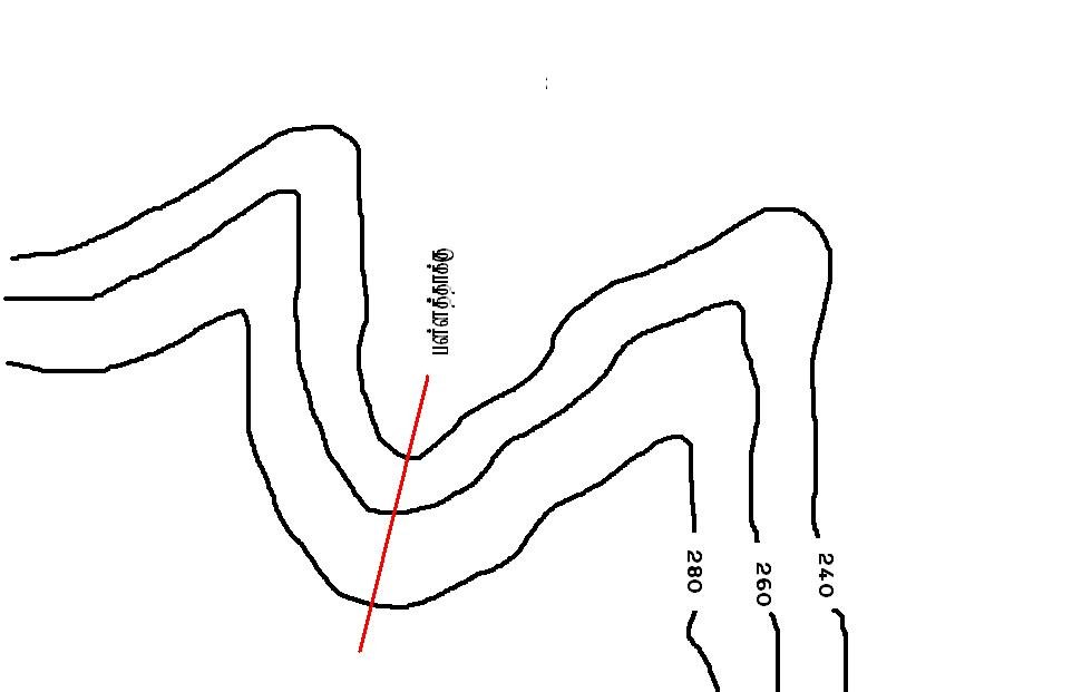 It is a contour map of the valley.